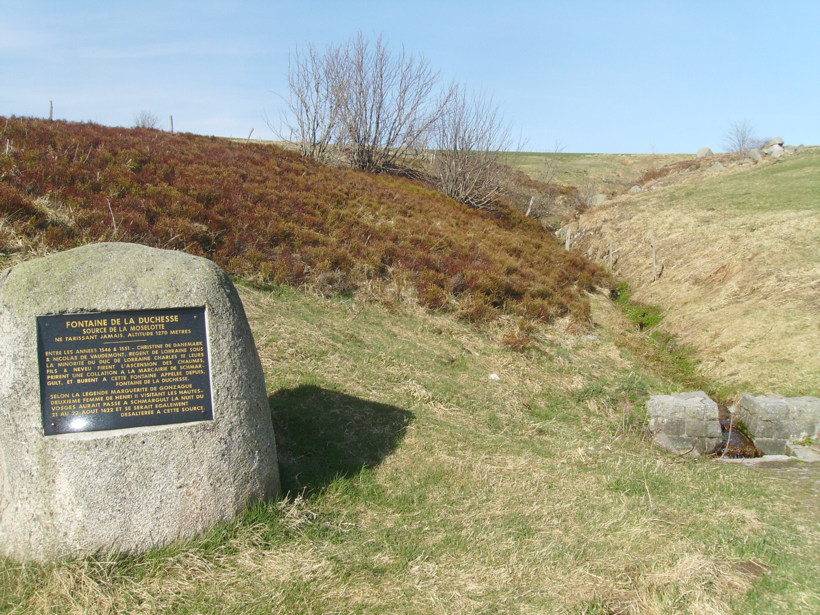 Fontaine de la Duchesse (source de la Moselotte)